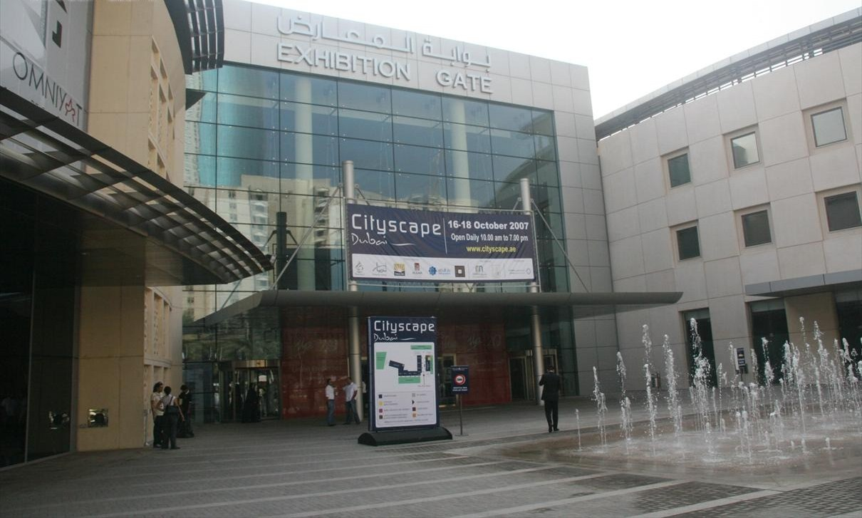 This is a photo showing the entrance to an exhibition hall at the Dubai International Convention Centre, in Dubai, United Arab Emirates, on 16 October 2007. It was the first day of Cityscape Dubai 20007.